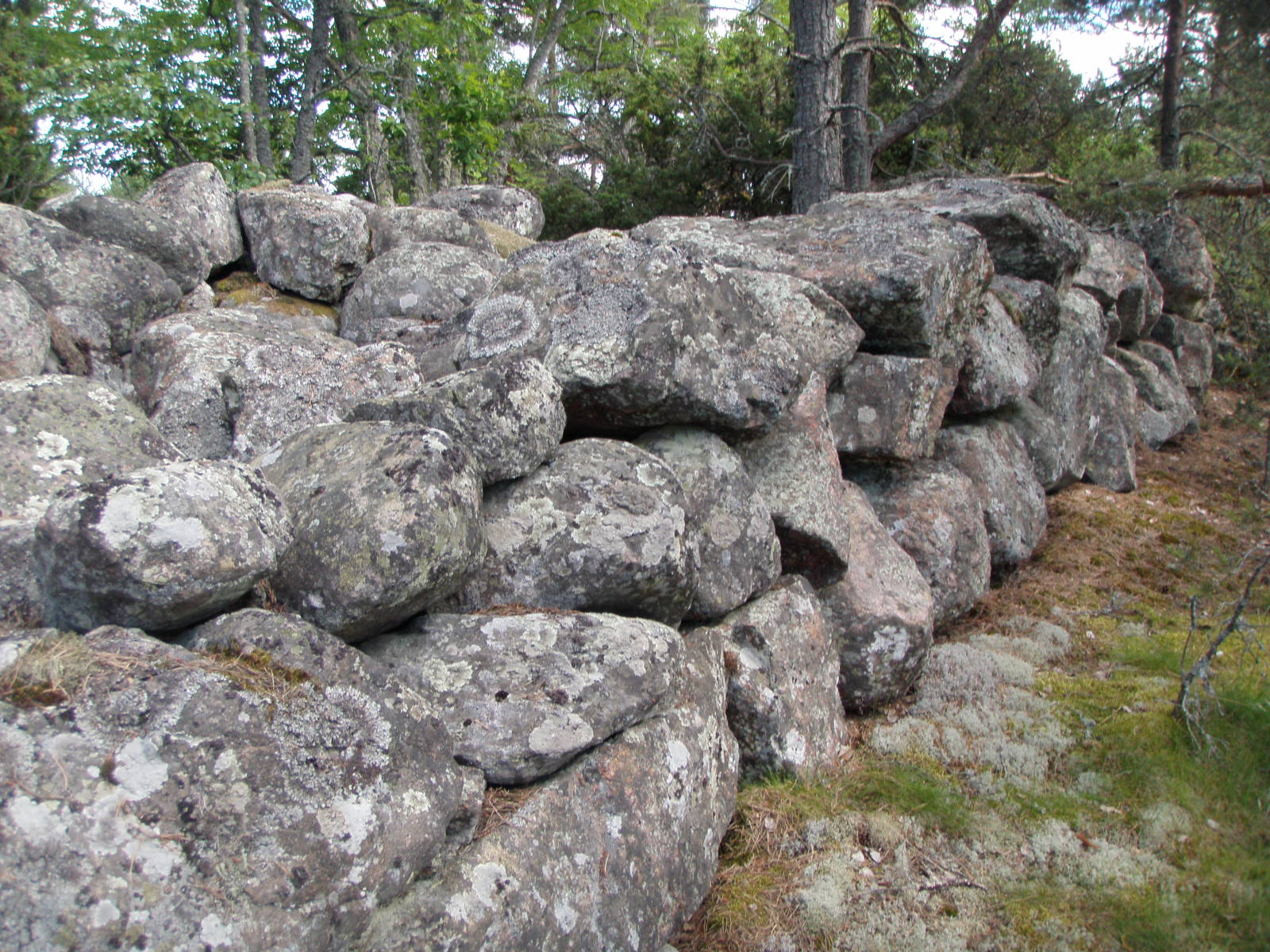 In Tingstad parish between Norrköping and Söderköping is one of the most prominent hill forts in the region of Östergötland. It has partly been investigated archaeologically by Bror Schnittger in summer 1909, when it was found cultural layers that suggested prolonged and continuous activity on the site. There were particular bargains imported from the continent in the form of a small decorated glass cups and glass fragments, a spiral-wrapped gold (guldten in Swedish) and more everyday items related to agriculture. Schnittger dating the hill fort to the Roman Iron Age.